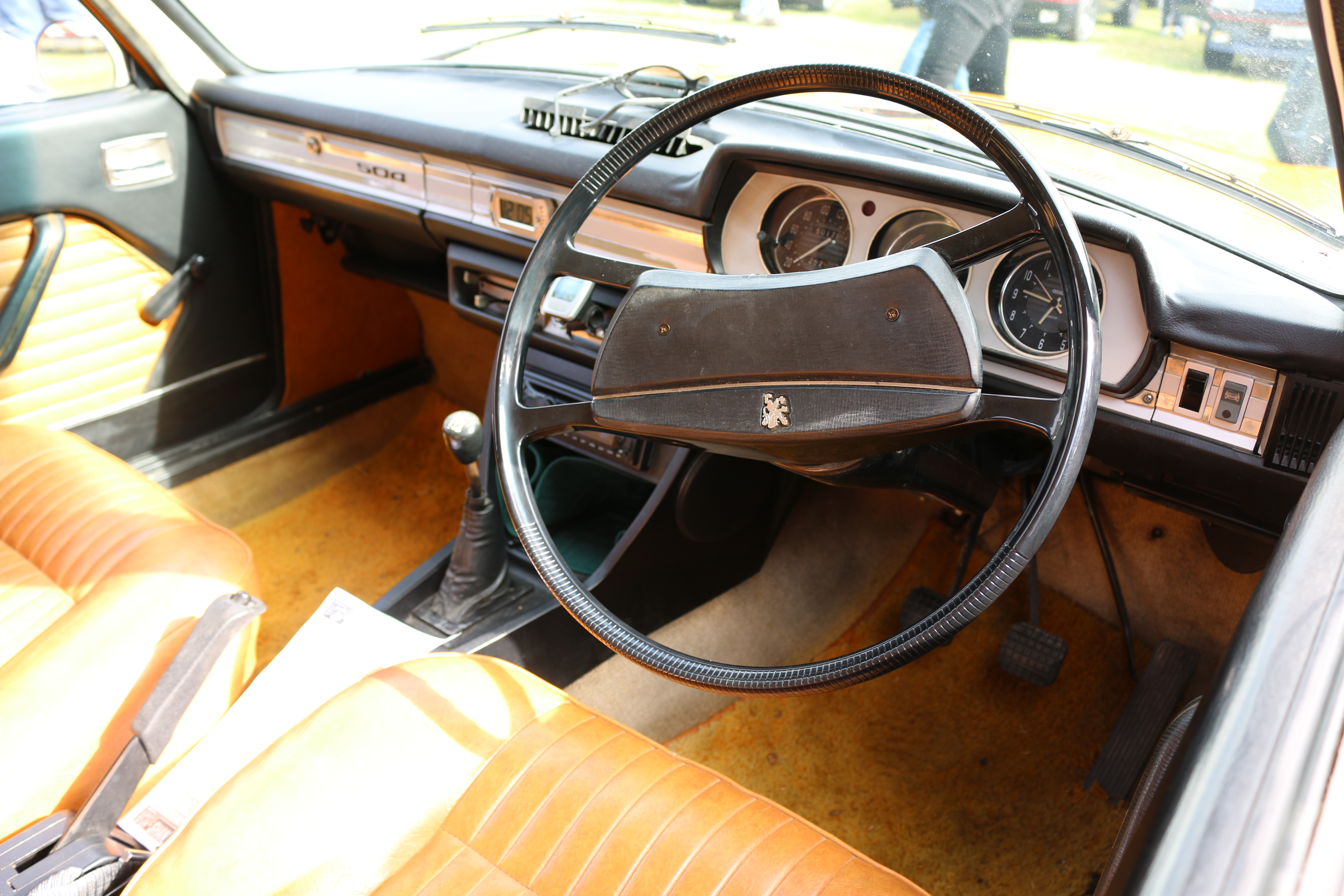 All French Day, Silverwater Park, NSW July 2016